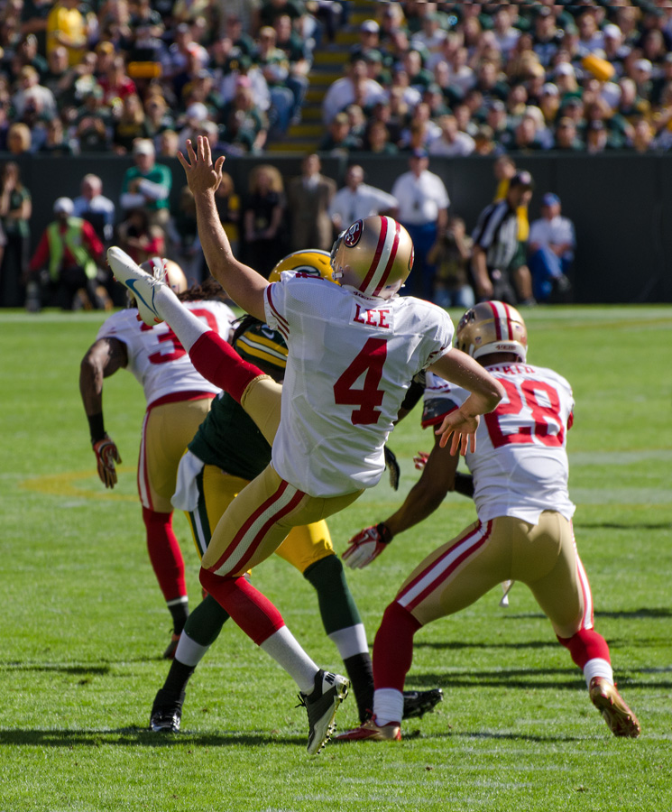 San Francisco 49ers vs. Green Bay Packers at Lambeau Field on September 9, 2012. Photo by Mike Morbeck.